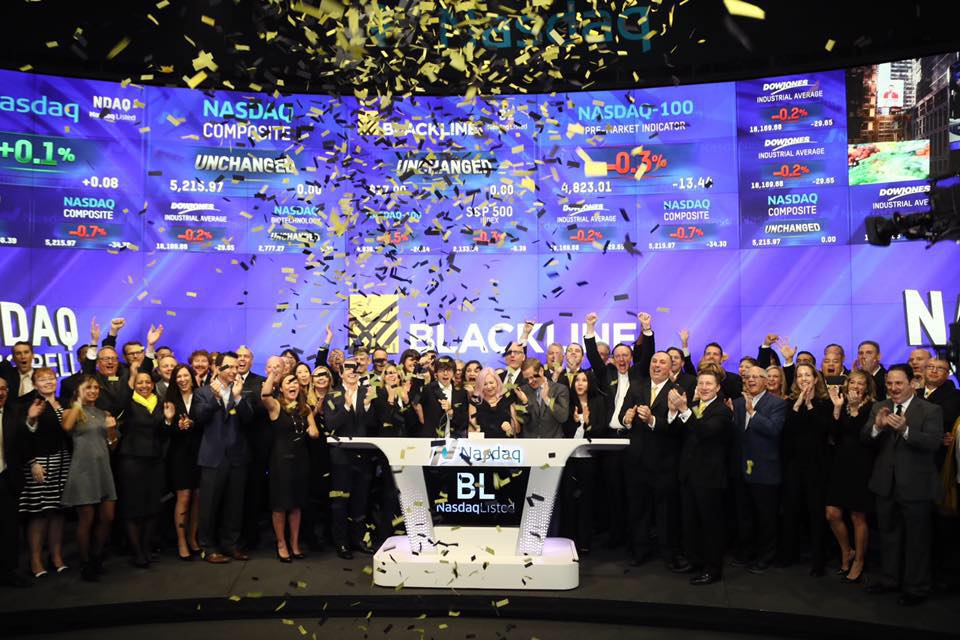 BlackLine Bell-Ringing Ceremony, Nasdaq